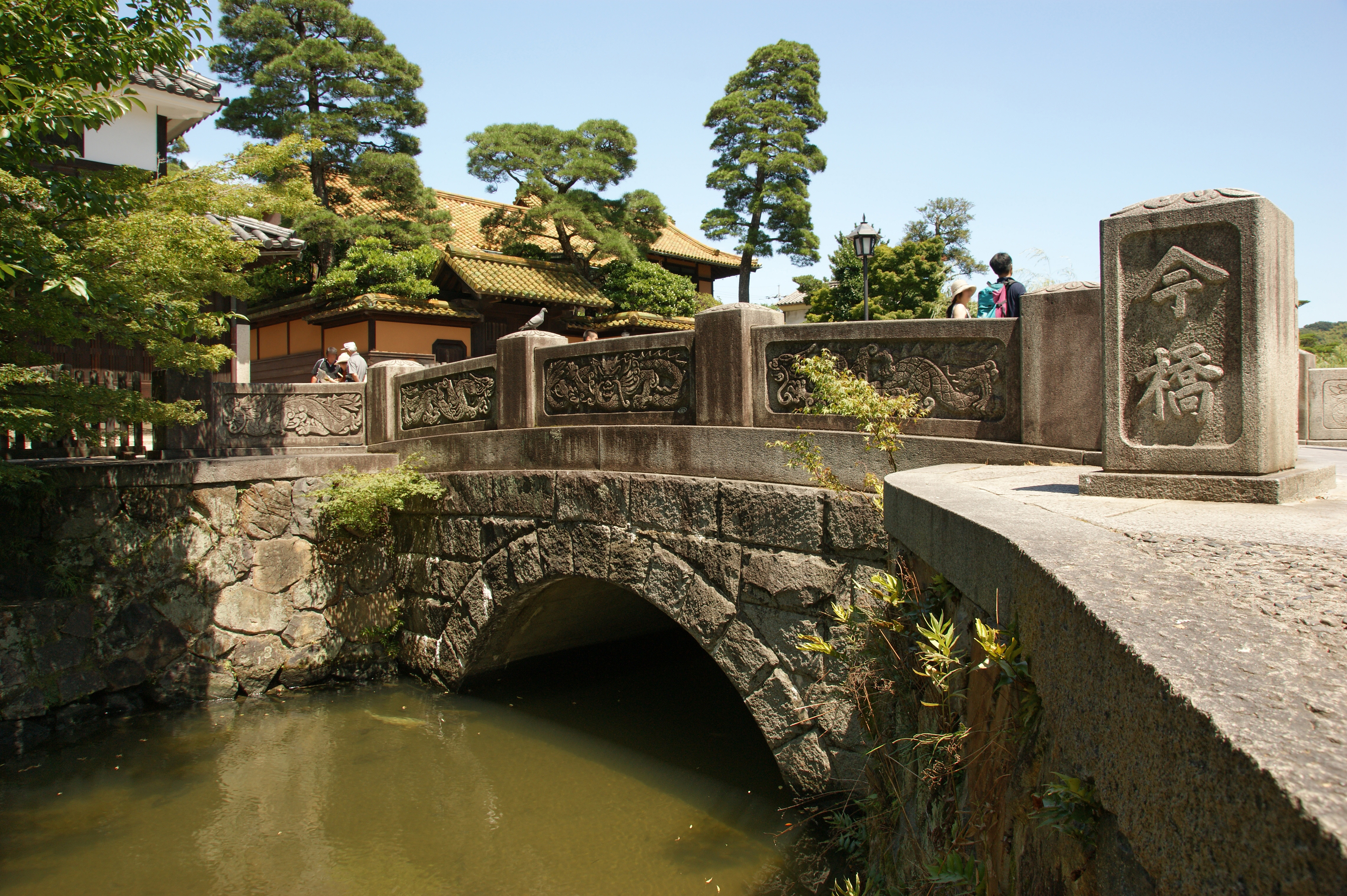 Kurashiki Bikan historical quarter in Kurashiki, Okayama prefecture, Japan